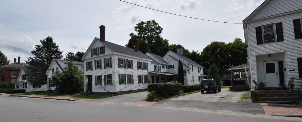 Lincoln Street Historic District. Odd-numbered side of street.